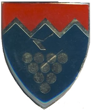 SADF Regiment Boland emblem